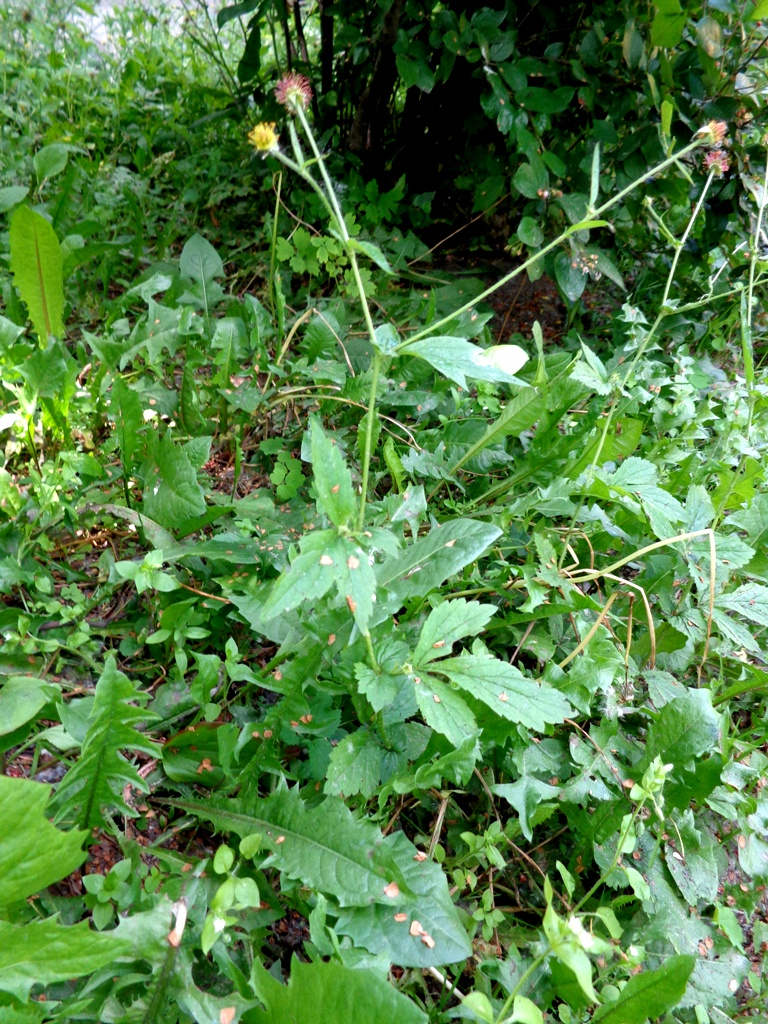 Geum urbanum. Found in Riga town, Latvia